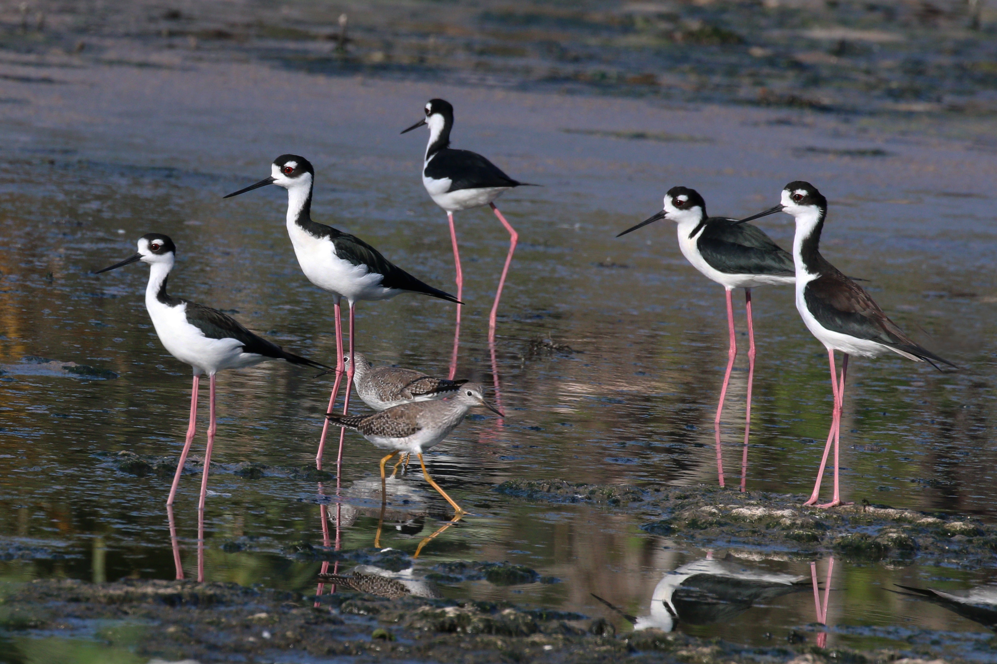 Black-necked stilts (Himantopus mexicanus), Cayo Coco, Cuba